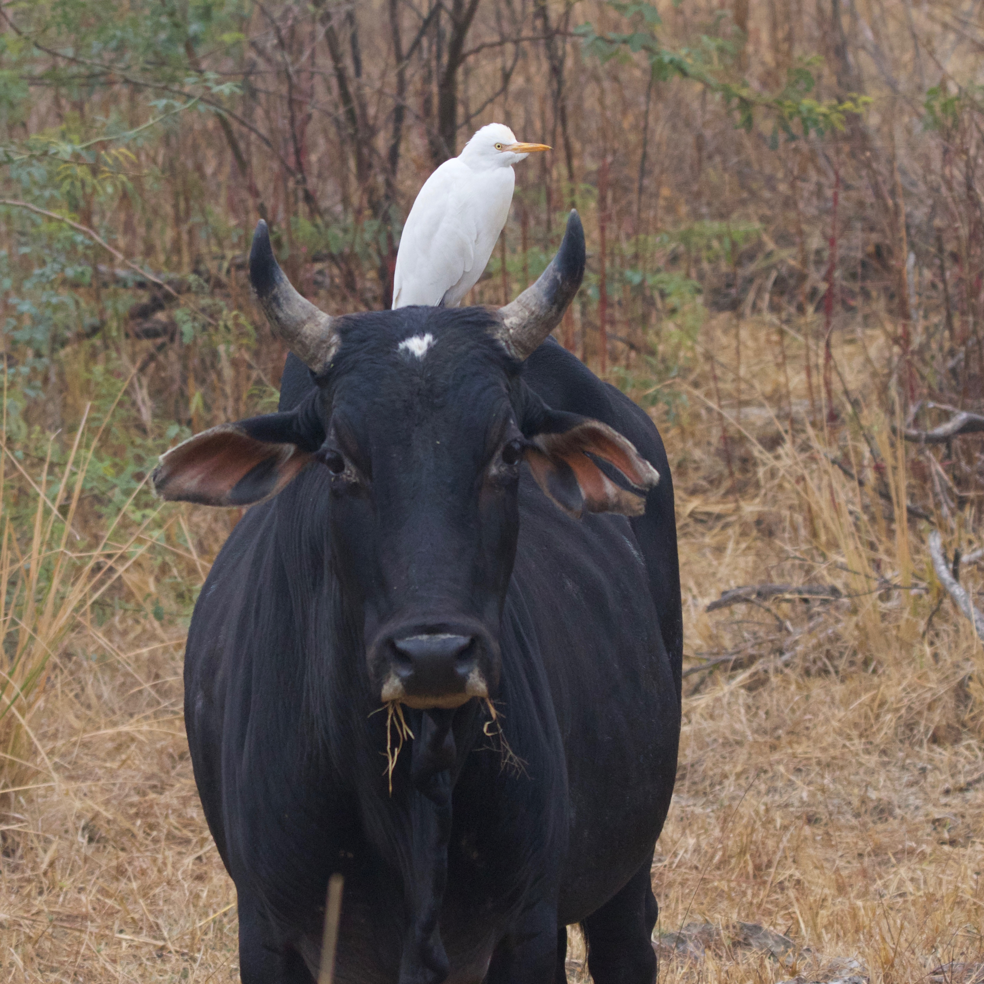 Birding at Sultanpur National Park, Haryana. Dec 2019.